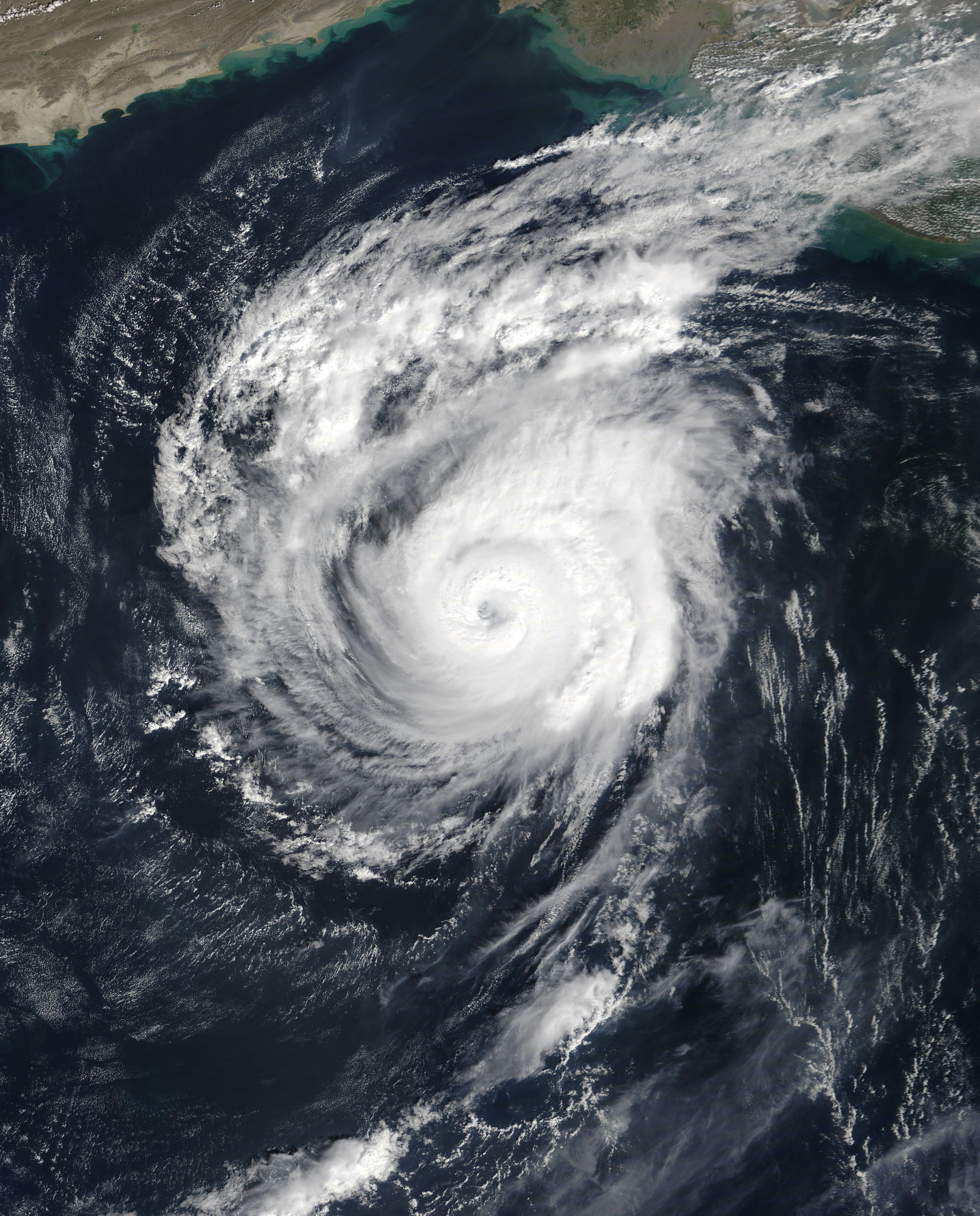 Extremely Severe Cyclonic Storm Maha on November 4, 2019